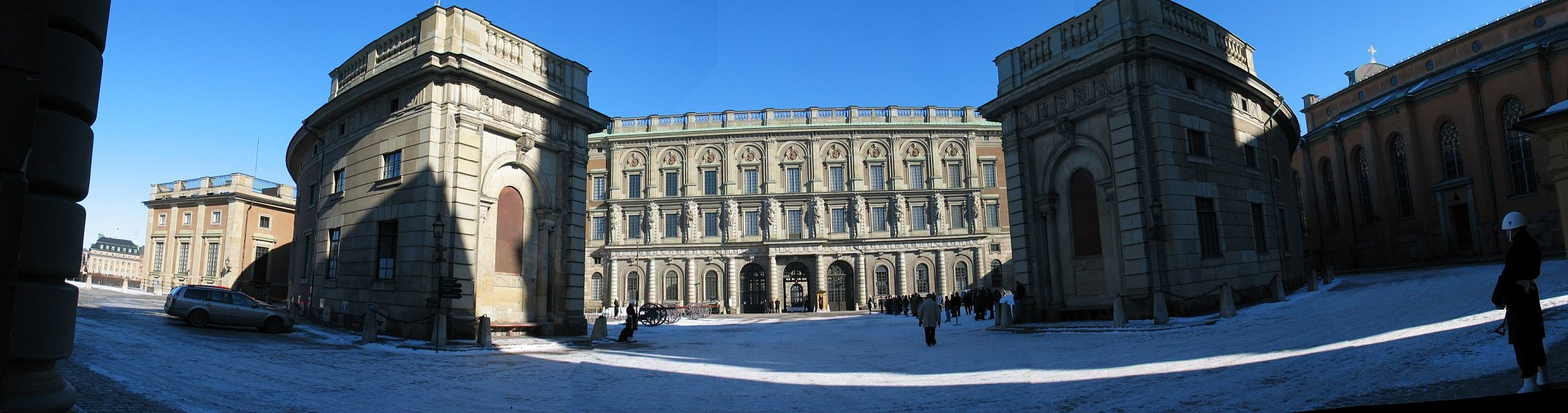 Panoramic Image of the Royal Palace in Stockholm (looking at yttre borggården). Image taken by Daniel Schwen on Feb 29th, 2004.